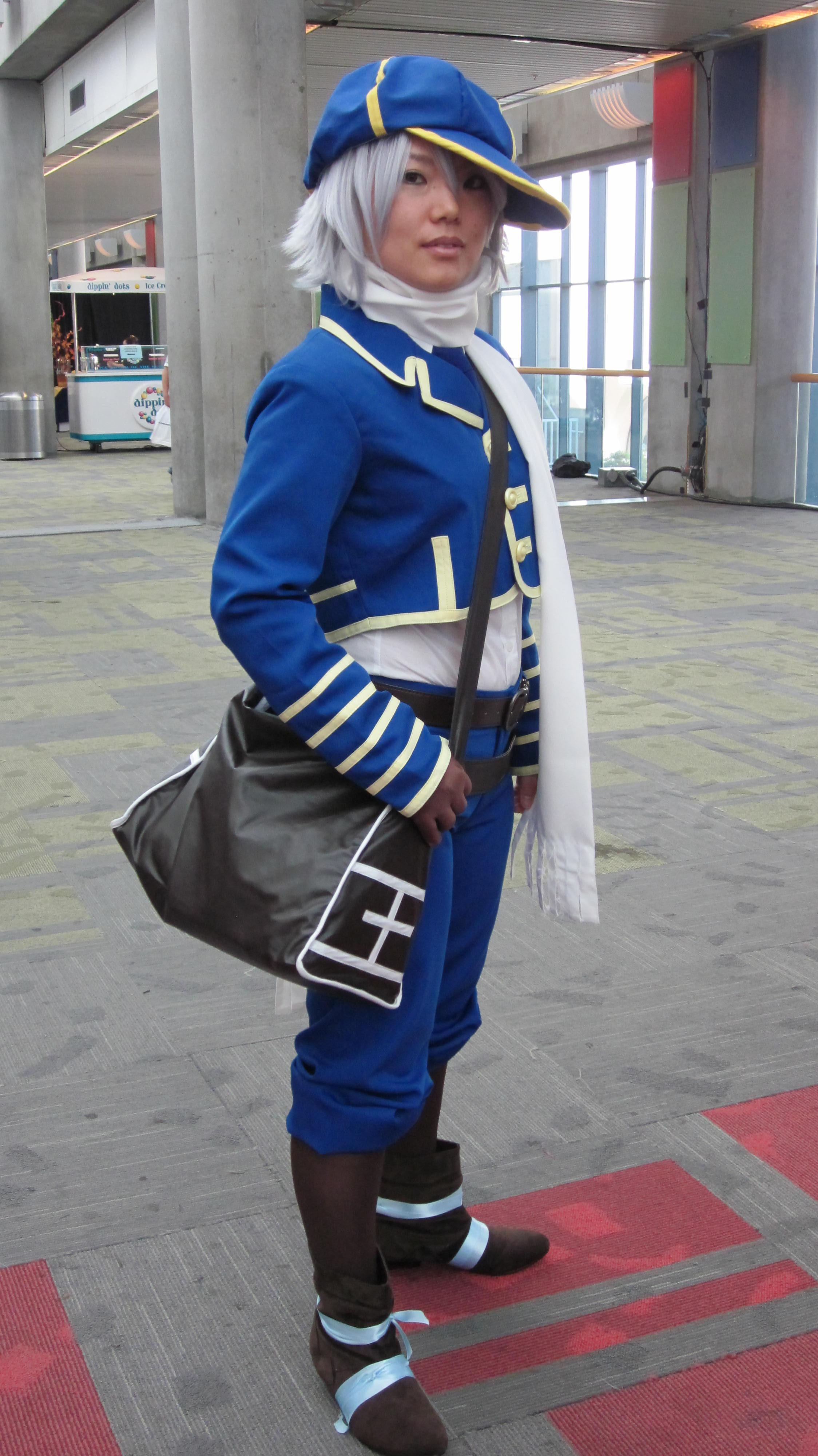 A cosplayer portraying Lag Seeing from Tegami Bachi at FanimeCon 2010 in San Jose, California.